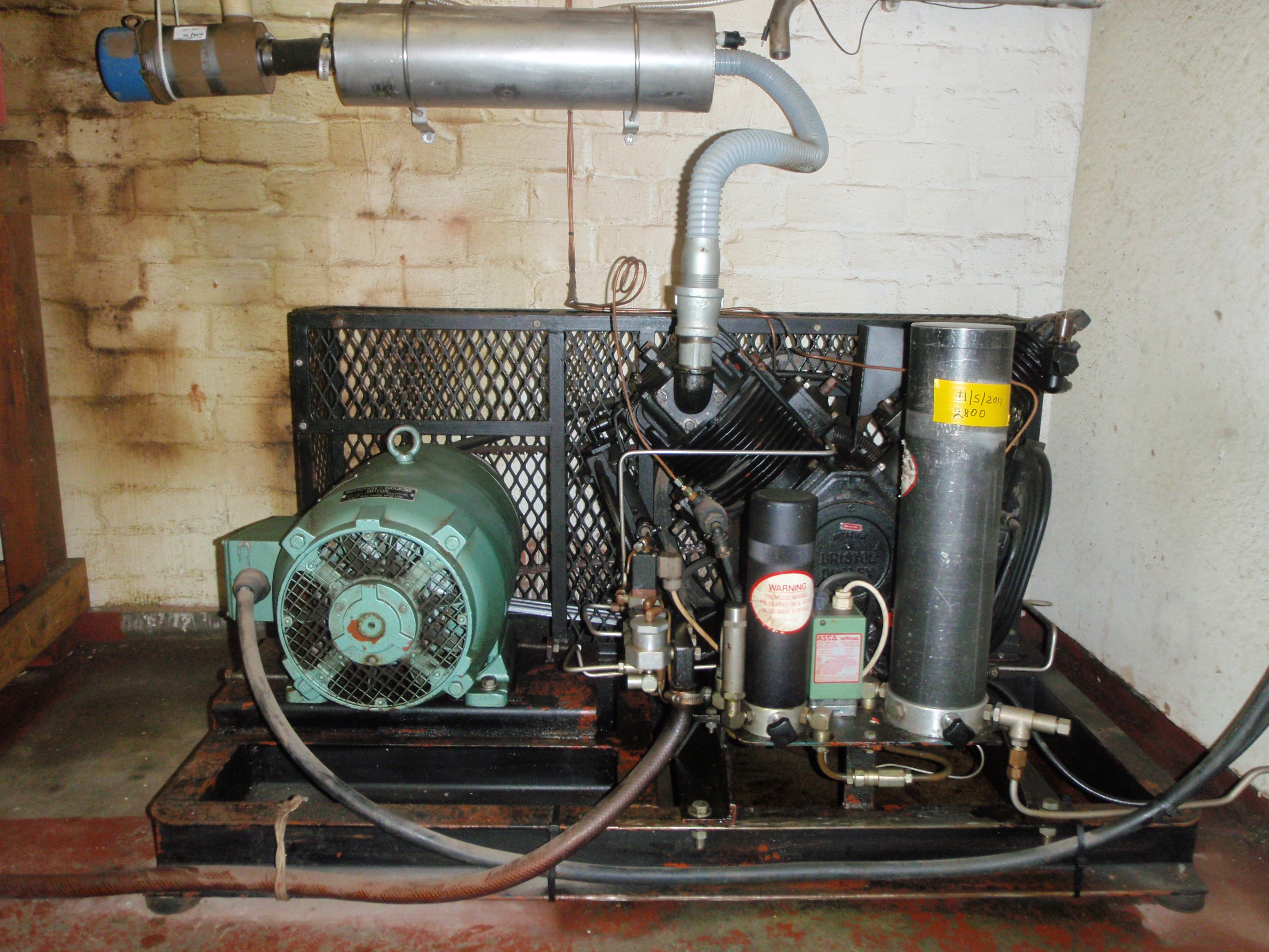 Bristol breathing air compressor at Research Diving Unit, University of Cape Town